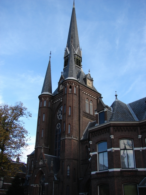 Zaandam Sint-Bonifatiuskerk